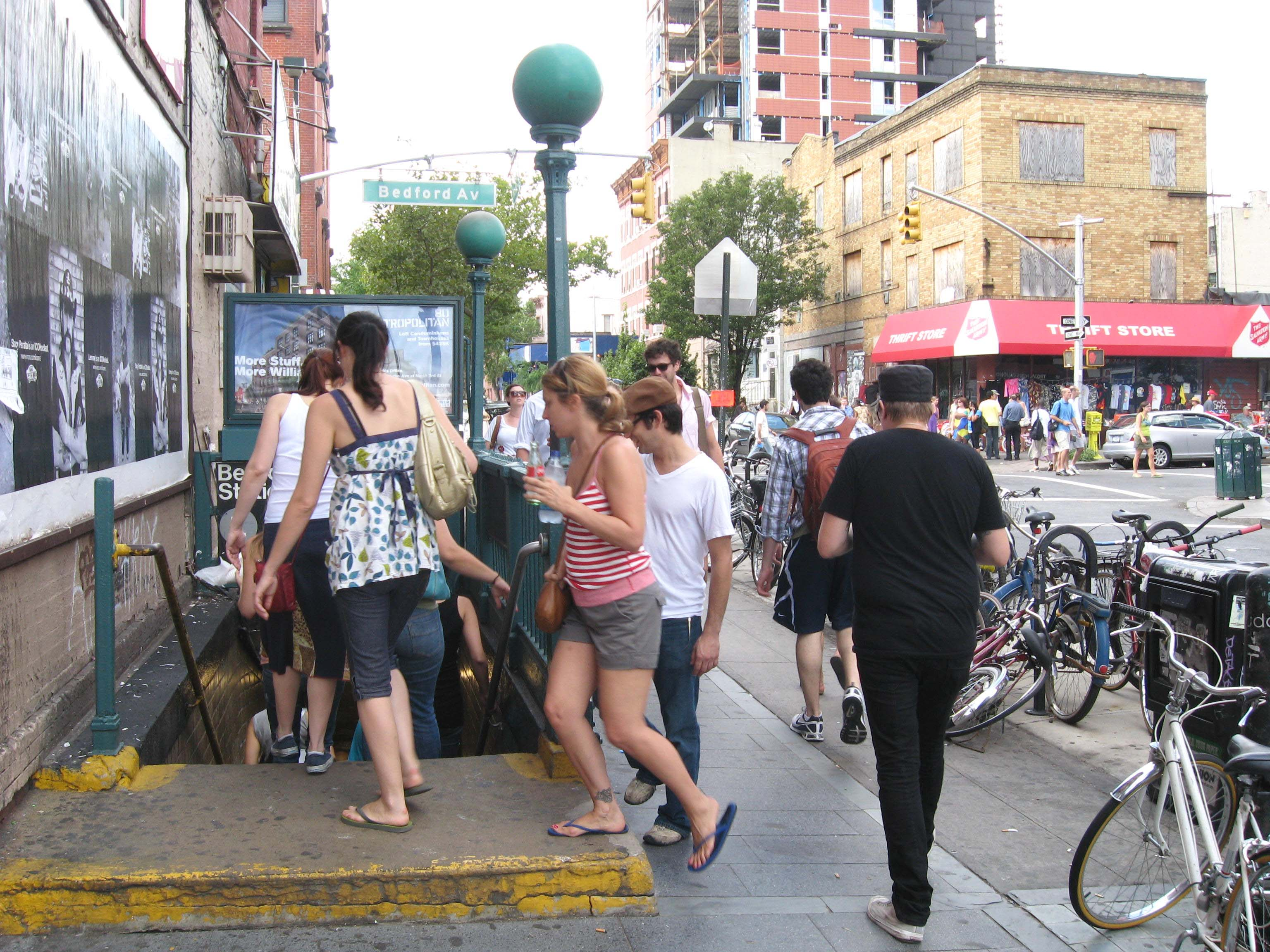 Looking northwest along North 7th Street at southern stair of Bedford Avenue (BMT Canarsie Line) on a sunny afternoon